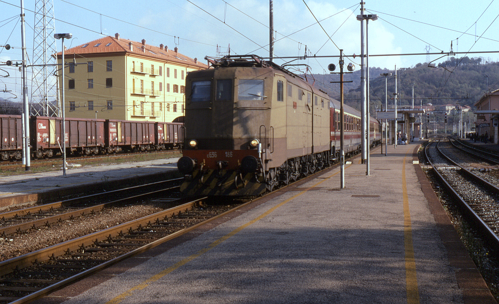 E636.186 at San Giuseppe di Cairo on 3 November 1997.